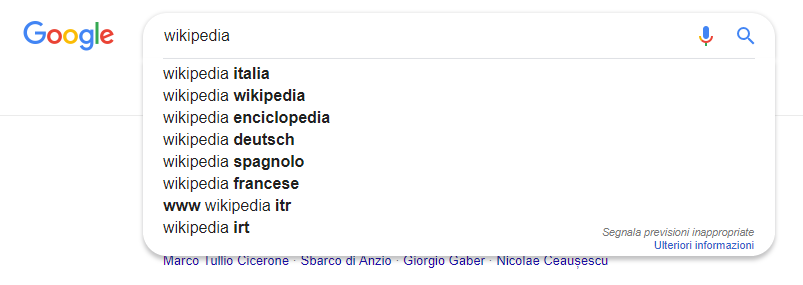 Search with Google